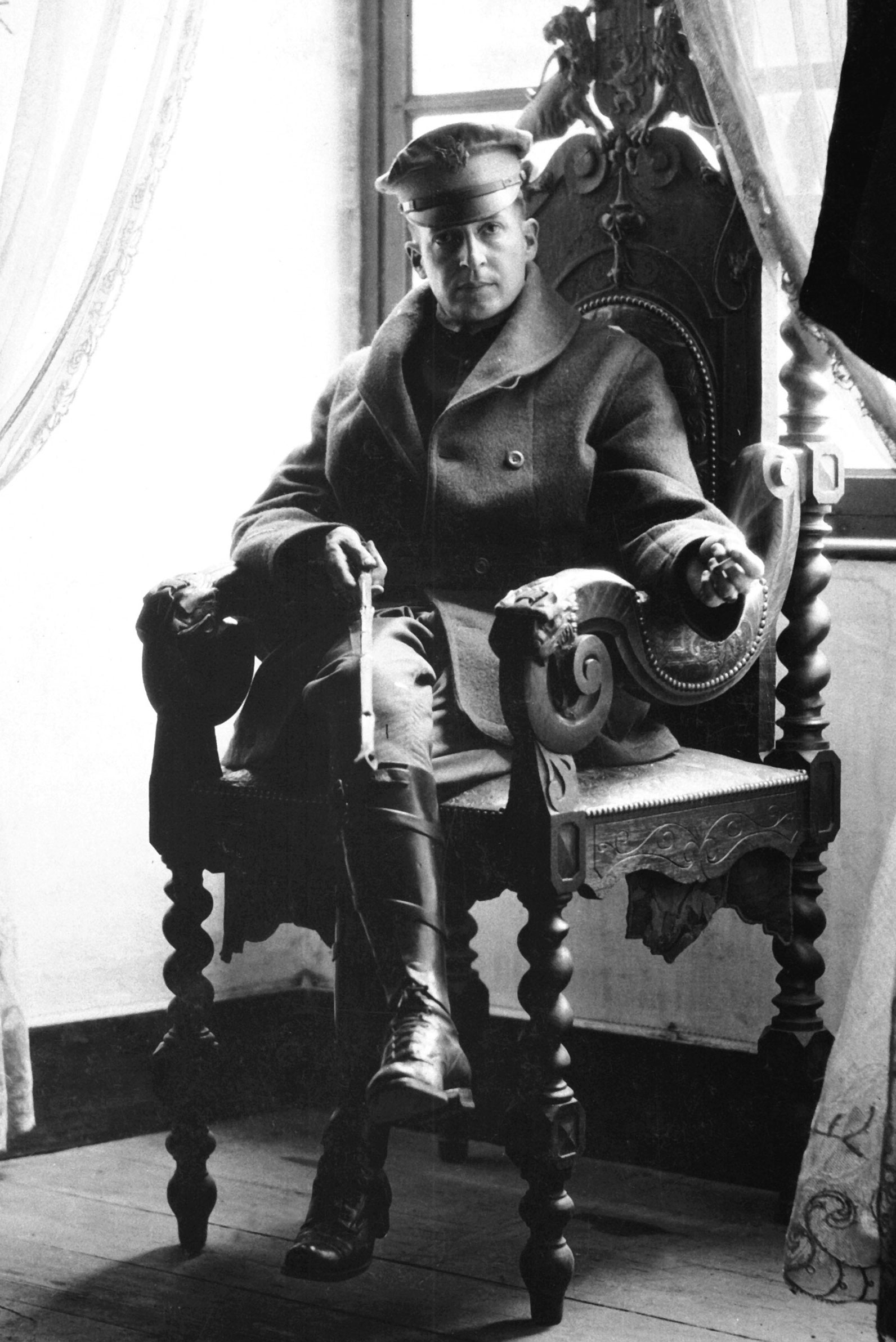 Douglas MacArthur, seen here as a brigadier general, cleaned up after the Germans left and restored what he could of the original splendor. He is seated in the original chair of the old lord of the chateau. St. Benoit Chateau, France.